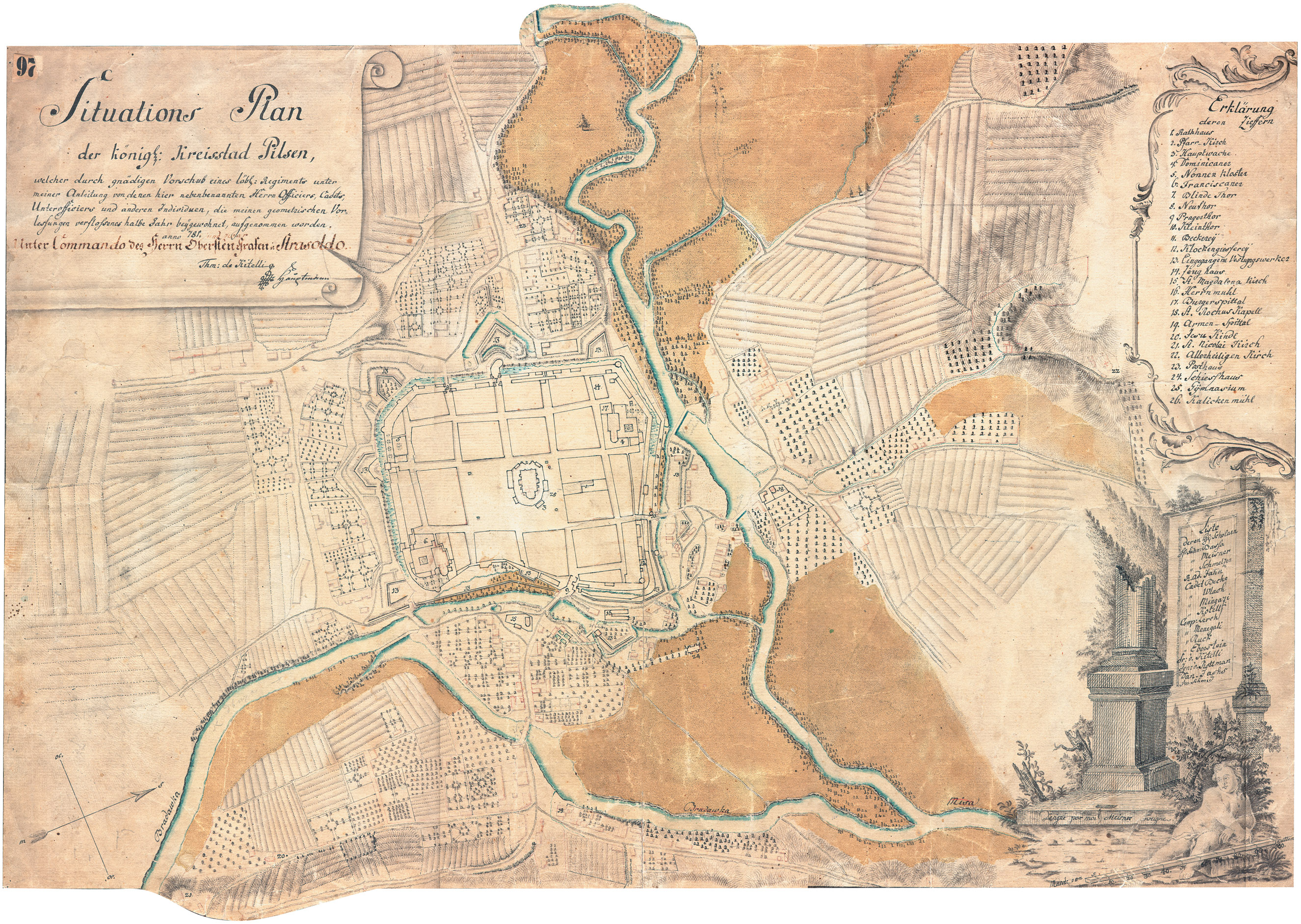 Plzeň (Pilsen), Czech Republic, military city map, 1781. Notice that north is on the right side.